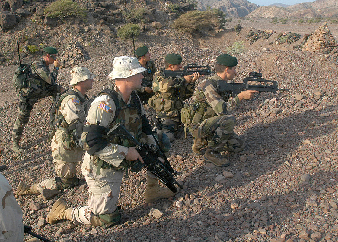 U.S. soldiers and French commandos marine conduct a reconnaissance patrol during a recent joint-combined exercise in Djibouti. The Soldiers are assigned to Company B, 3rd U.S. Infantry Regiment, “The Old Guard,” deployed in the Global War on Terrorism as part of the Combined Joint Task Force - Horn of Africa. This photo appeared on